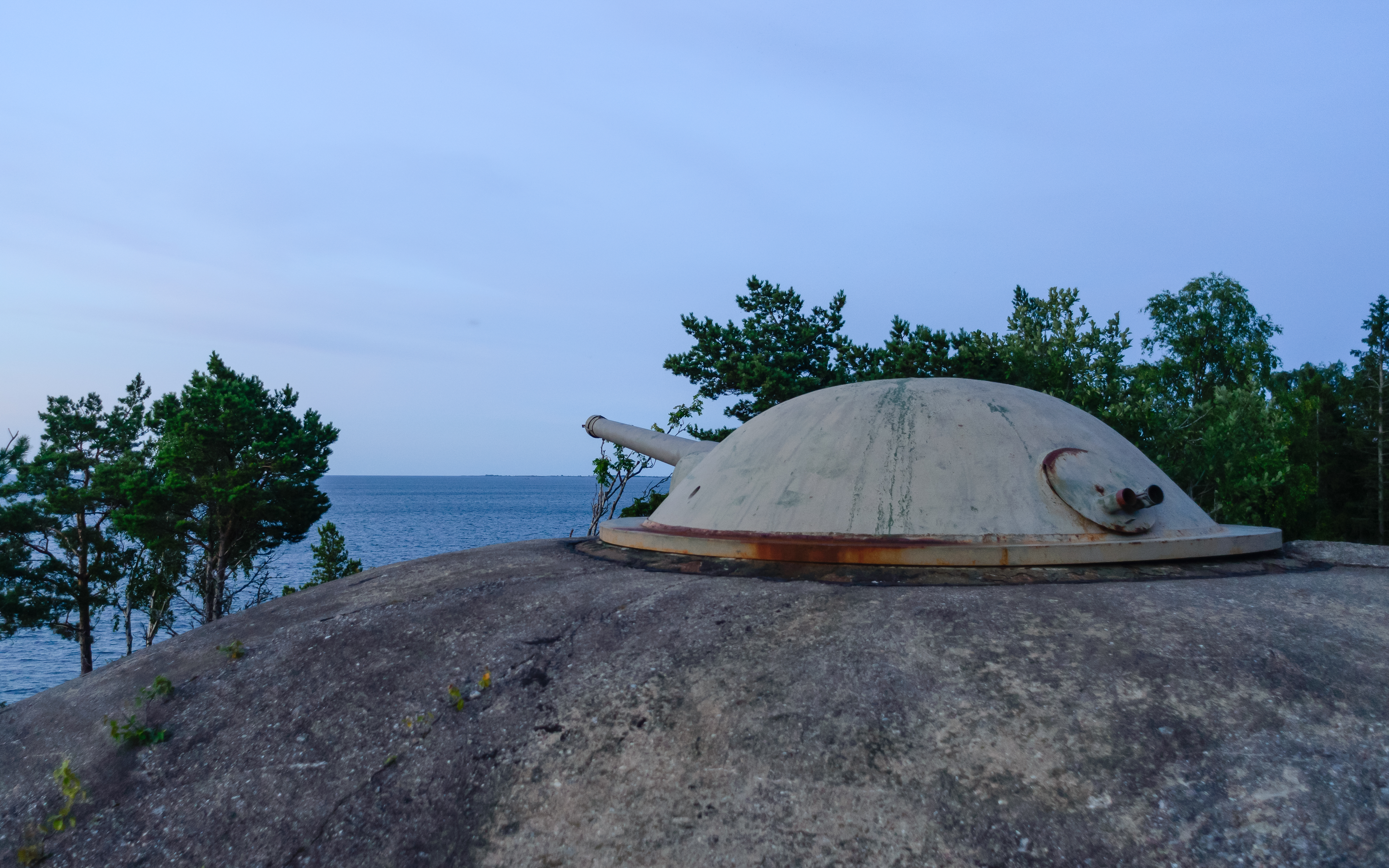 Old coastal artillery gun on the island Lidö in Stockholm archipelago.